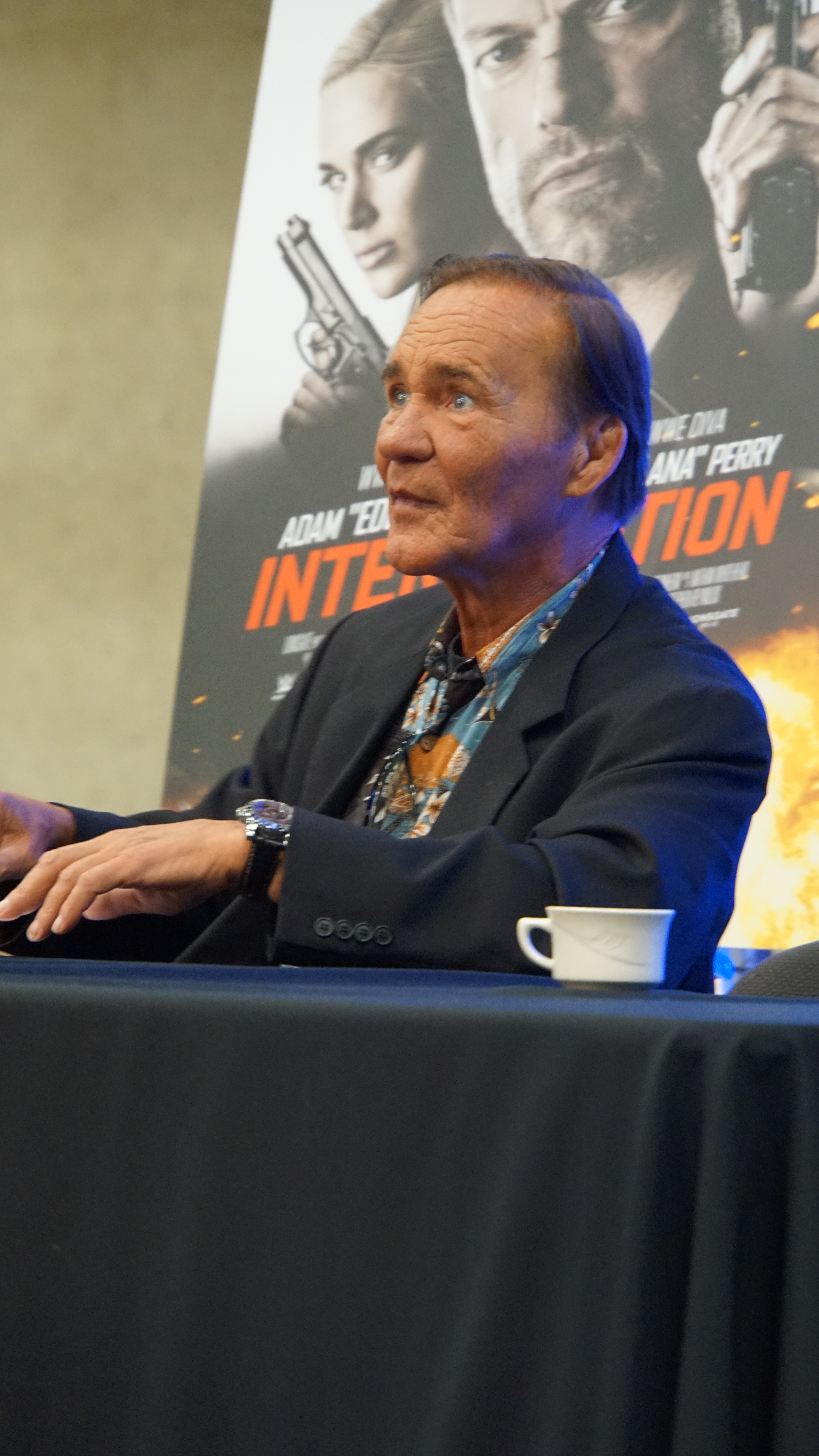 WWE WrestleMania XXXII - Miami - Dallas - New York - WWE Axxess - Day 2 - Friday WrestleMania Axxess takes over the Kay Bailey Hutchison Convention Center in Dallas March 31-April 3. Featuring Superstar and Diva meet-and-greets, memorabilia displays and much more, WrestleMania Axxess is one event WWE fans of all ages will want to be part of. Don't miss out! ( Our Tour in Miami, Dallas and New-York for Wrestlemania 32 from Dallas )